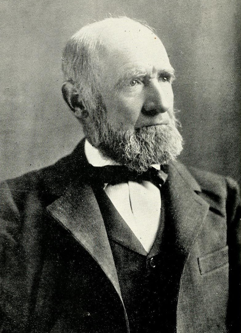 James B. Belford, Colorado Congressman